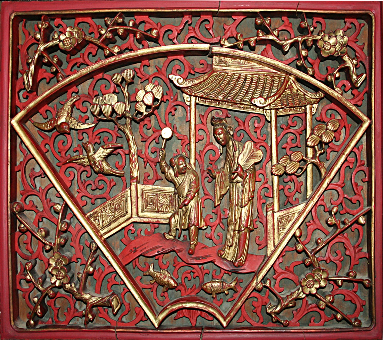 Enghien (Belgium), « Empain » castle. – China lacquered pannel of the chineese room.